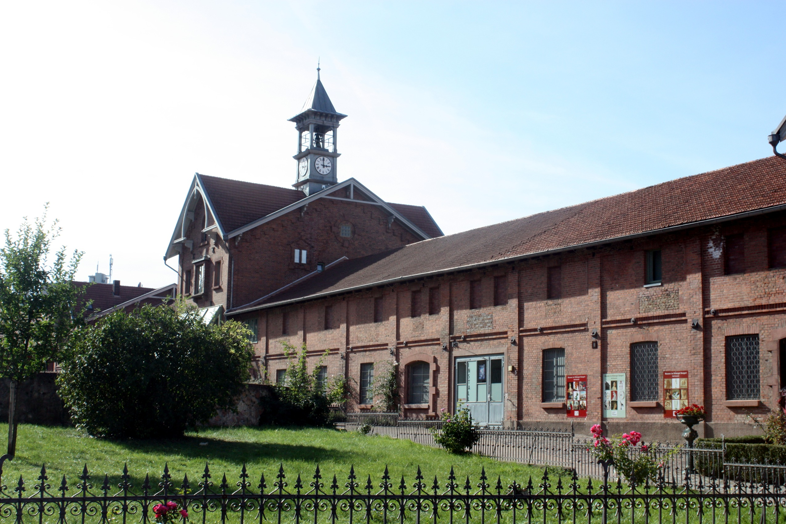 Bad Kreuznach, the manor estate Bangert